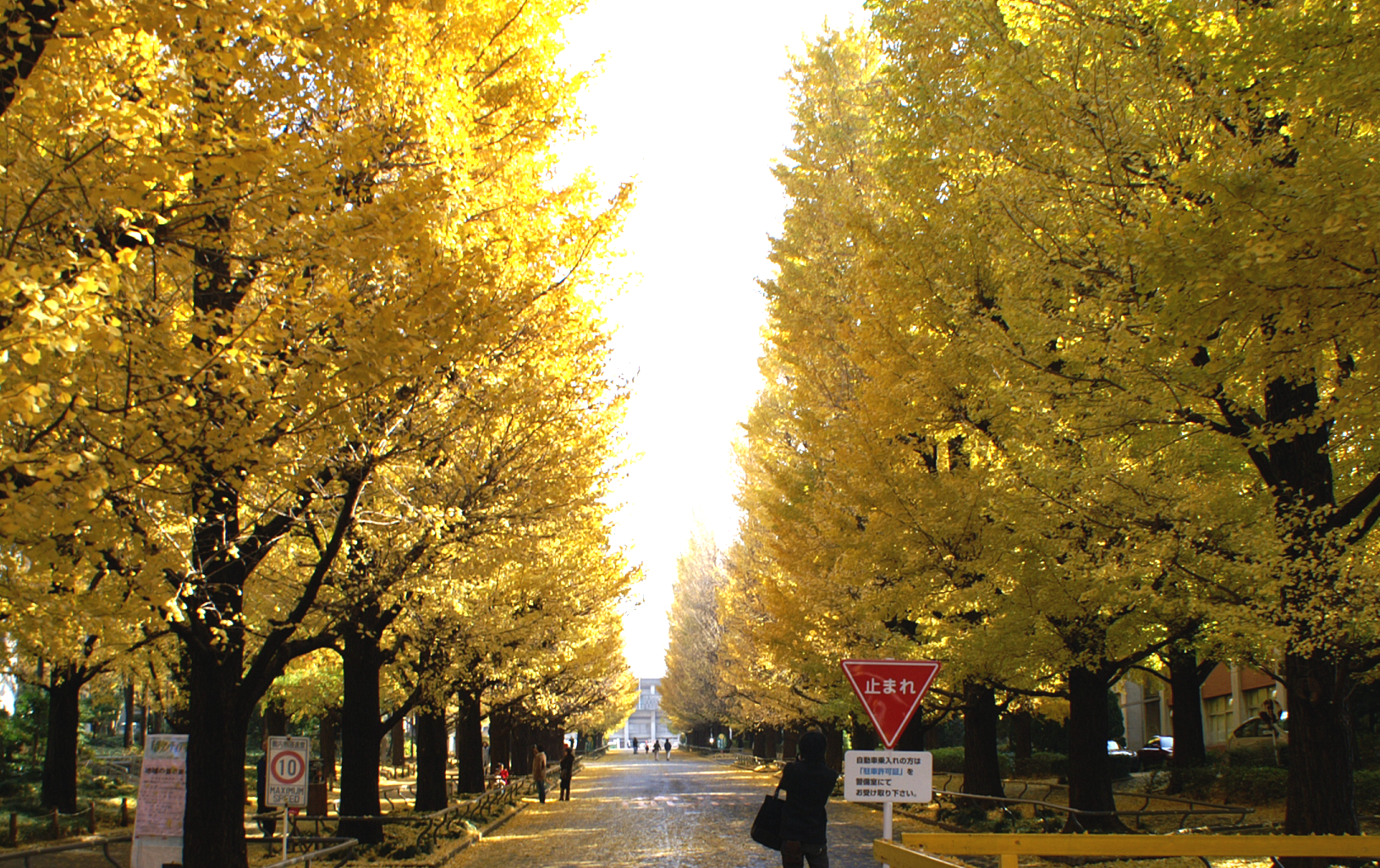 Strand of ginkgo trees at Keio University